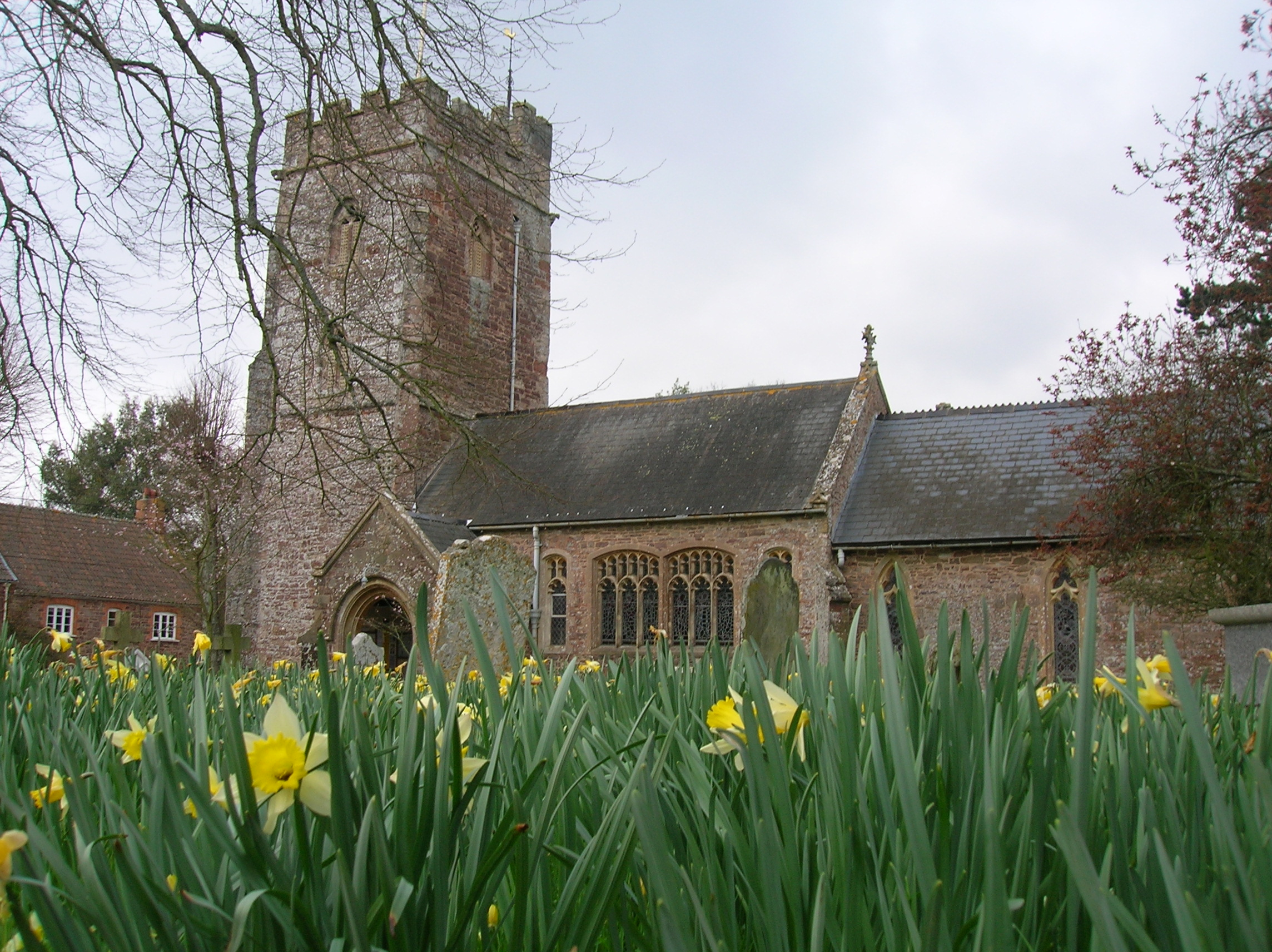 Parish church of SS Peter and Paul, Over Stowey, Somerset, seen from the south